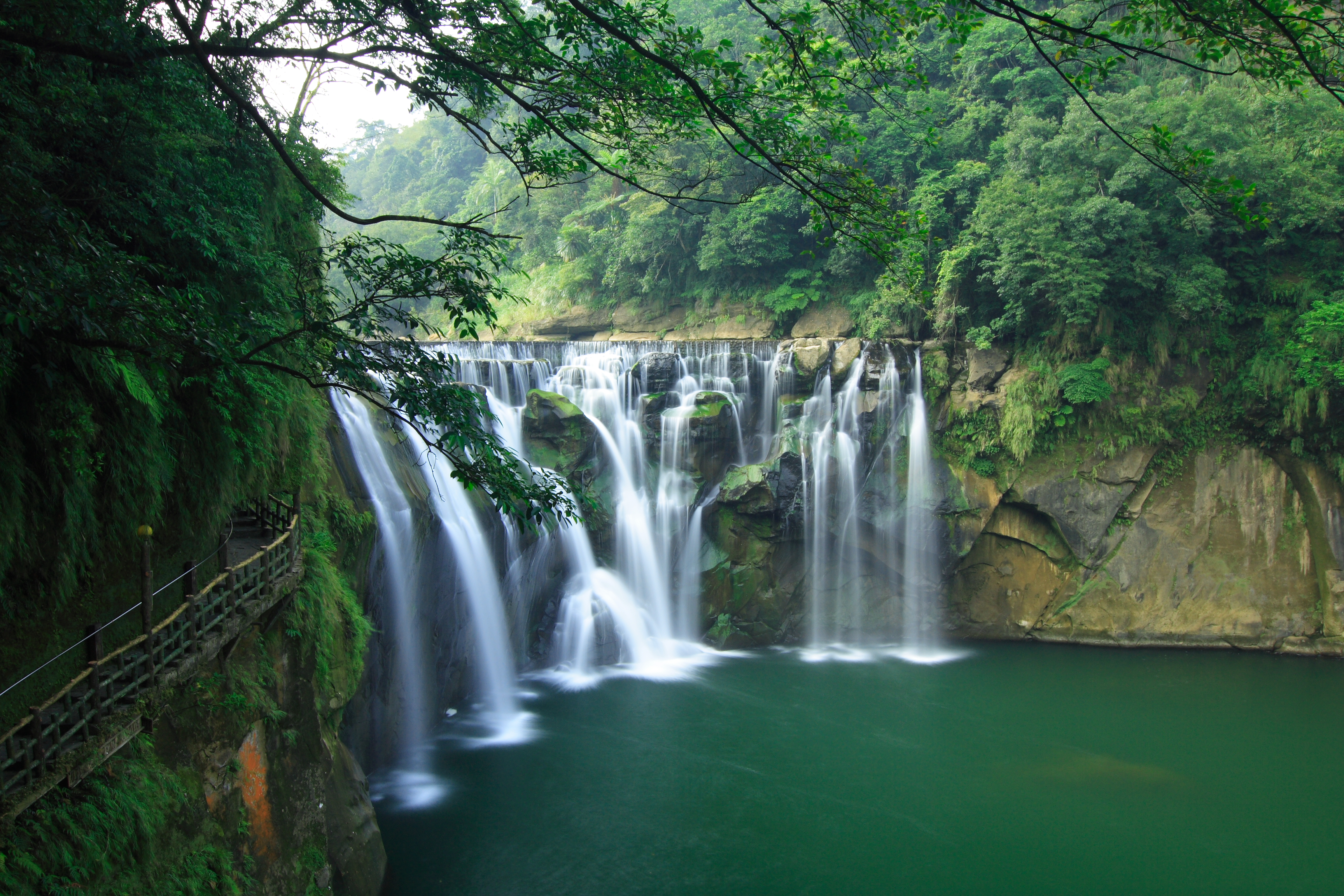 Shifen Waterfall@Pingsi Township,Taipei County,Taiwan